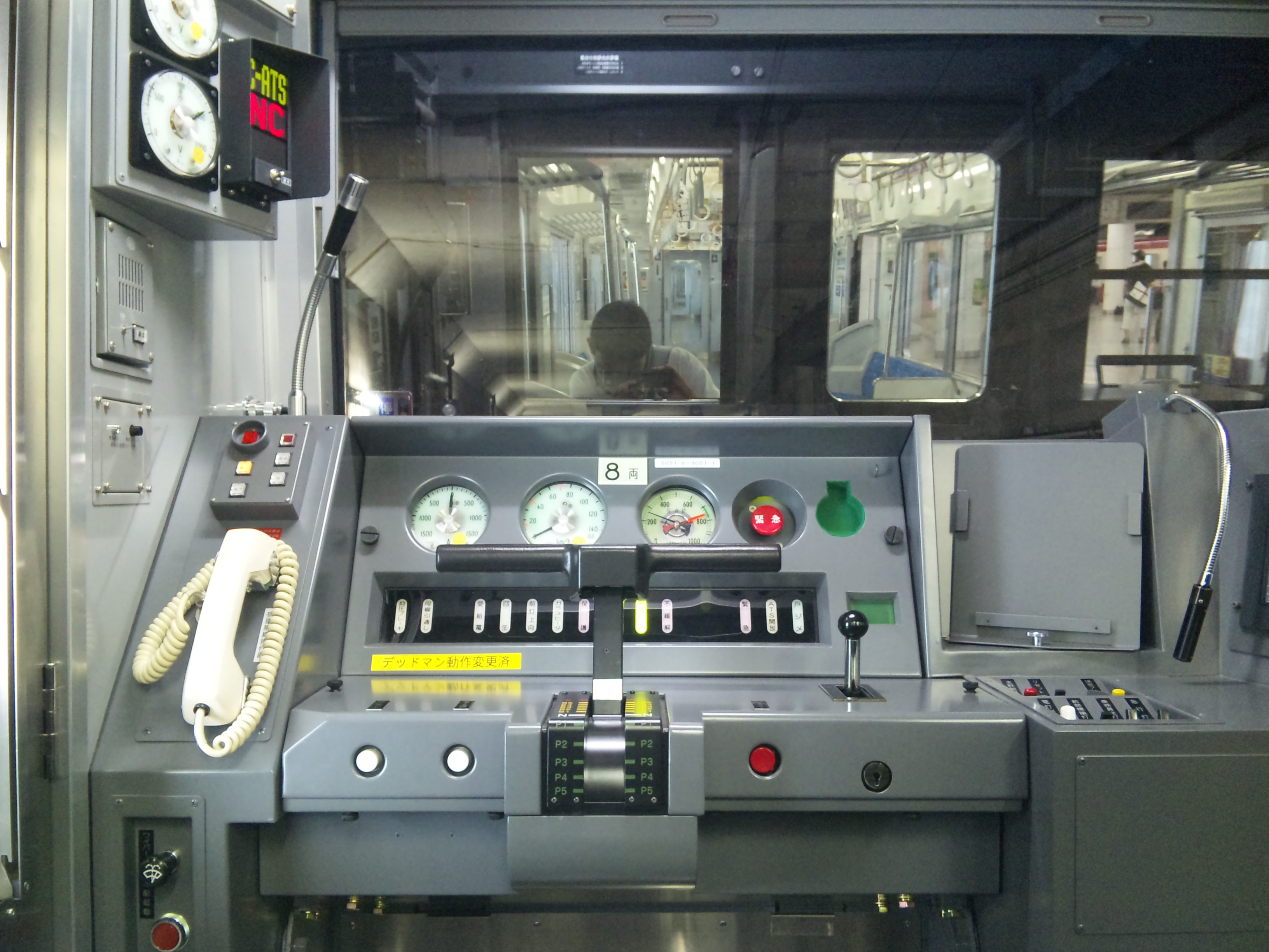 Driving cab of Keisei Electric Railway 3000 series EMU